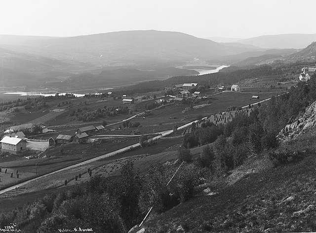 Aurdal